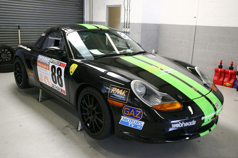 A full race-spec Porsche Boxster 986 Toyo Tires BRSCC Porsche Championship, Silverstone National circuit, 11 and 12 May 2013